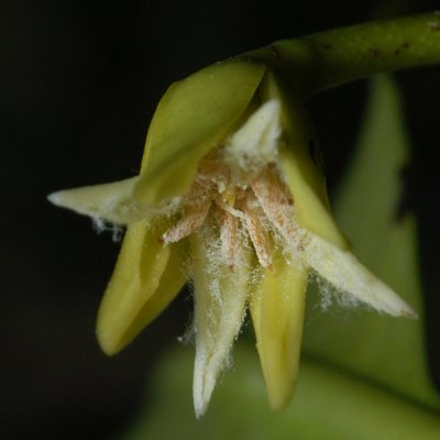 Flower of the Red Mangrove (Rhizophora mangle), mangrove forest near Acarajó, Bragança, Pará, Brazil*